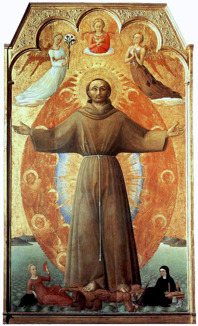 The ecstasy of st. Francis